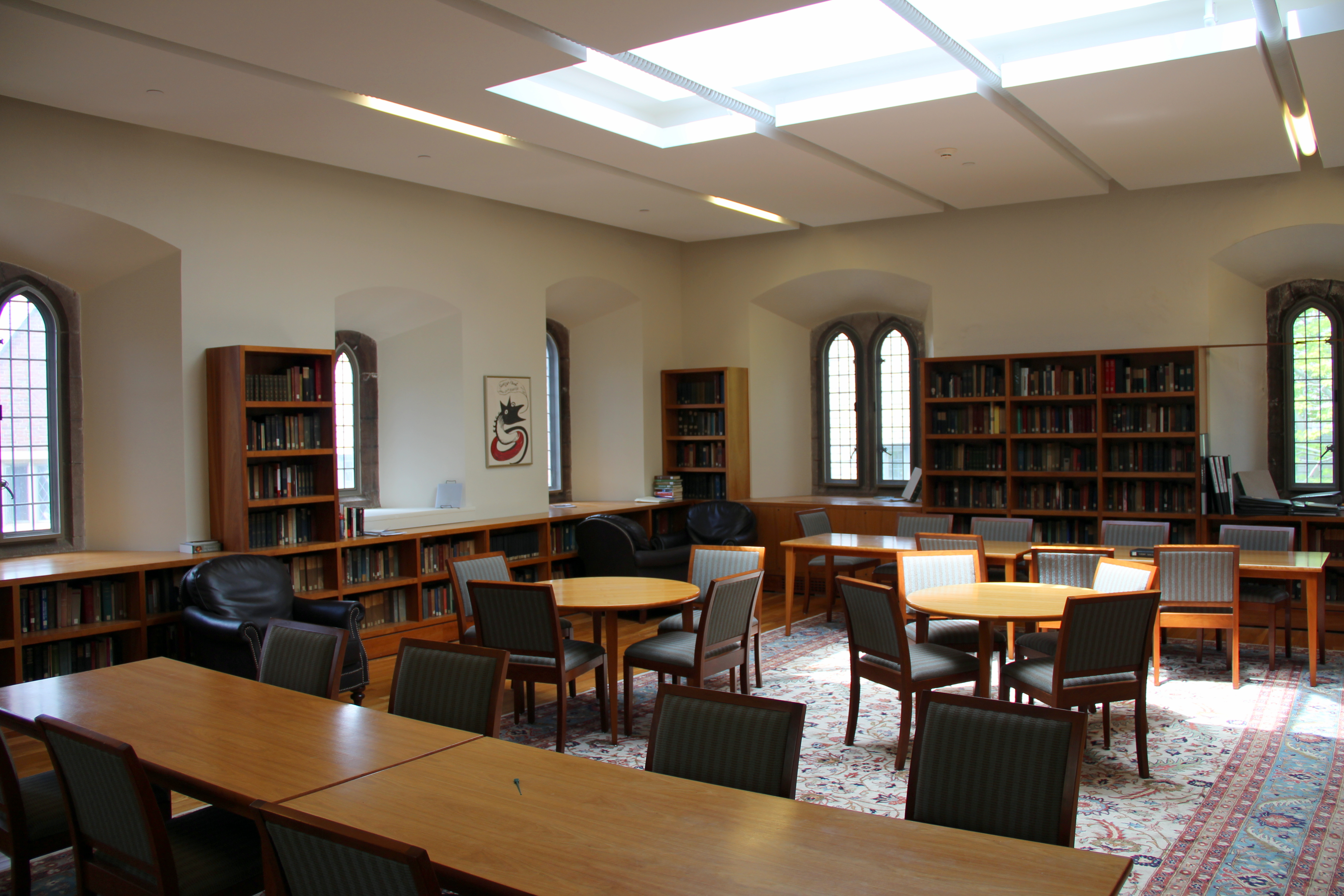 Beekman C. Cannon Reading Room of Jonathan Edwards College, also known as "Upper Taft"